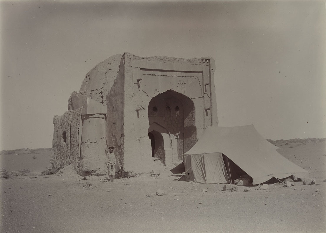 Muhammadan Tomb K.K.VI. at southeast corner of Kharakhoto, from east, 3 June 1914.